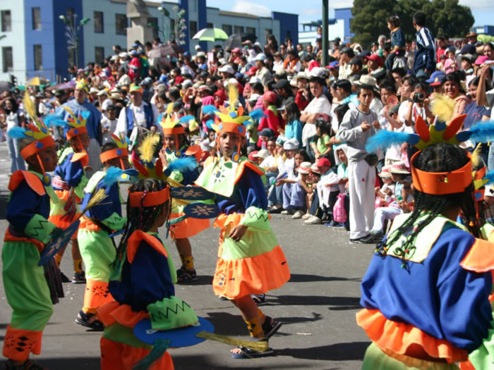 Pasto Blacks & Whites Children's Carnival, Colombia